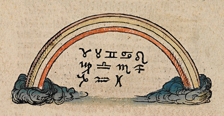 Illustration from the Nuremberg Chronicle